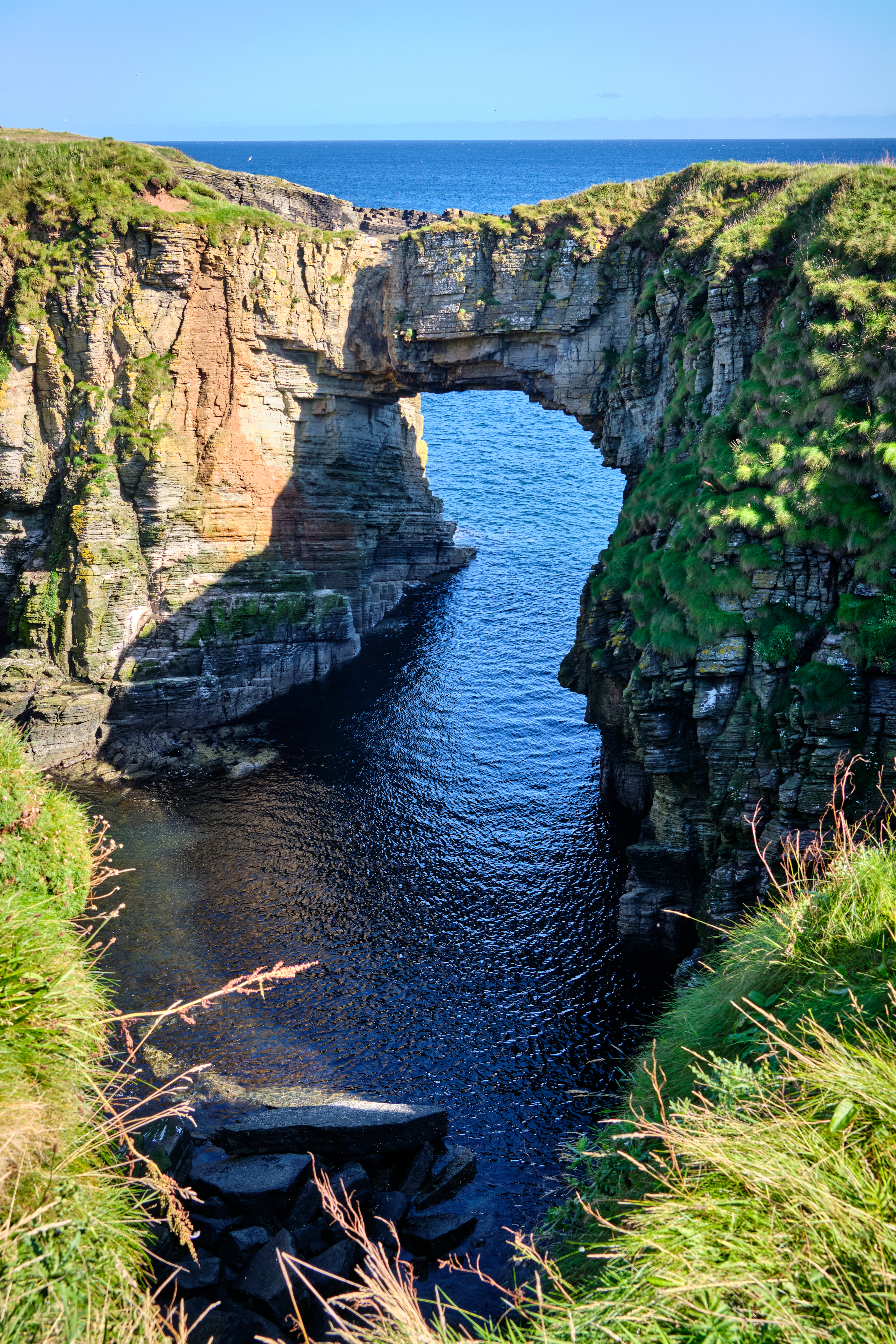 Photograph of the Vat of Kirbister taken from the opposing path